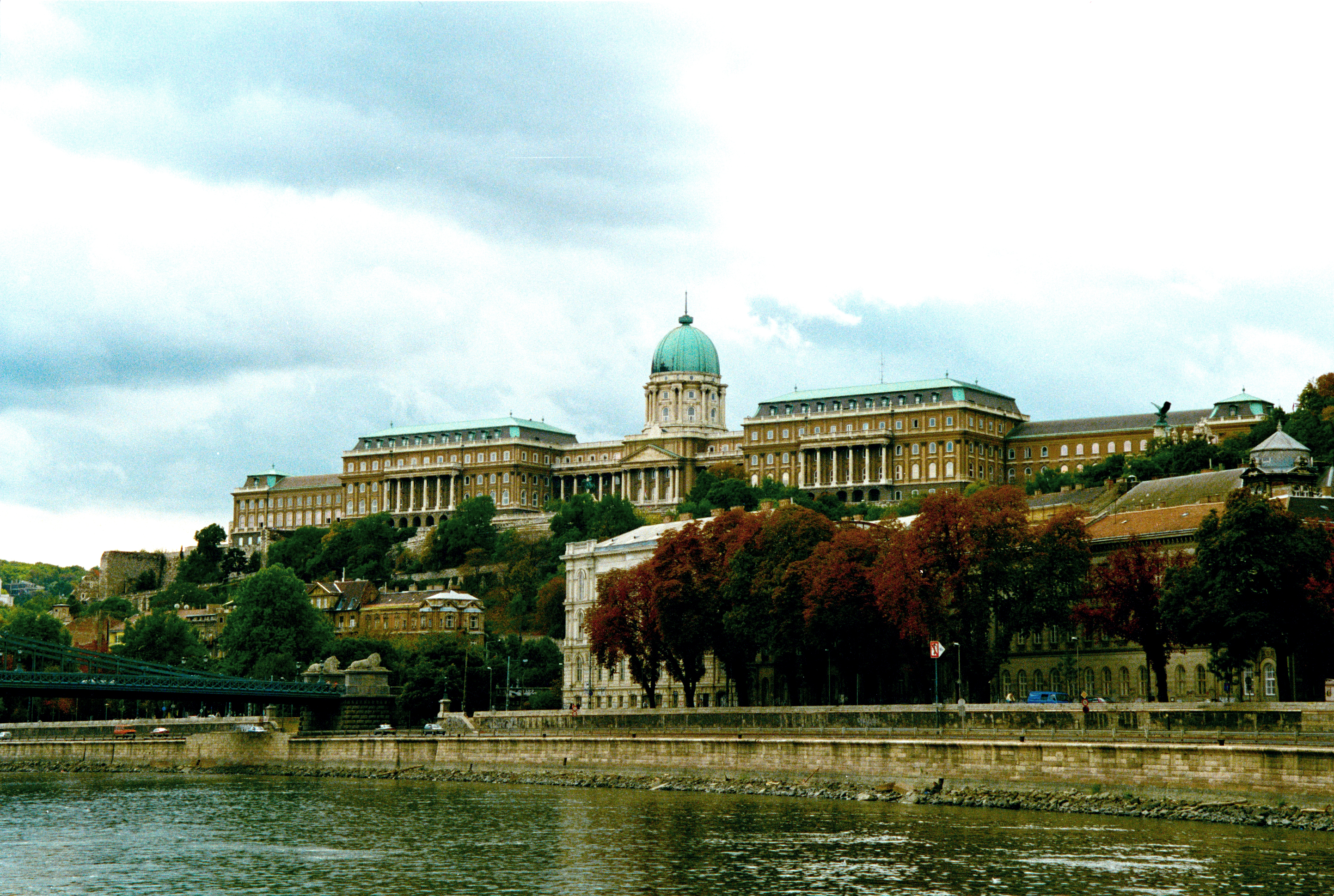 Budapest from Danube